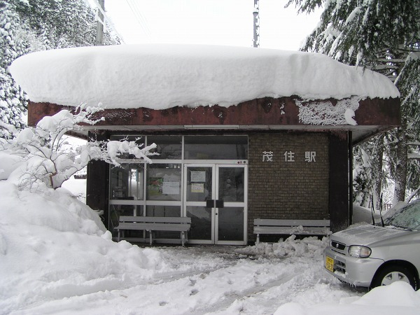 Kamioka Railway Mozumi Station